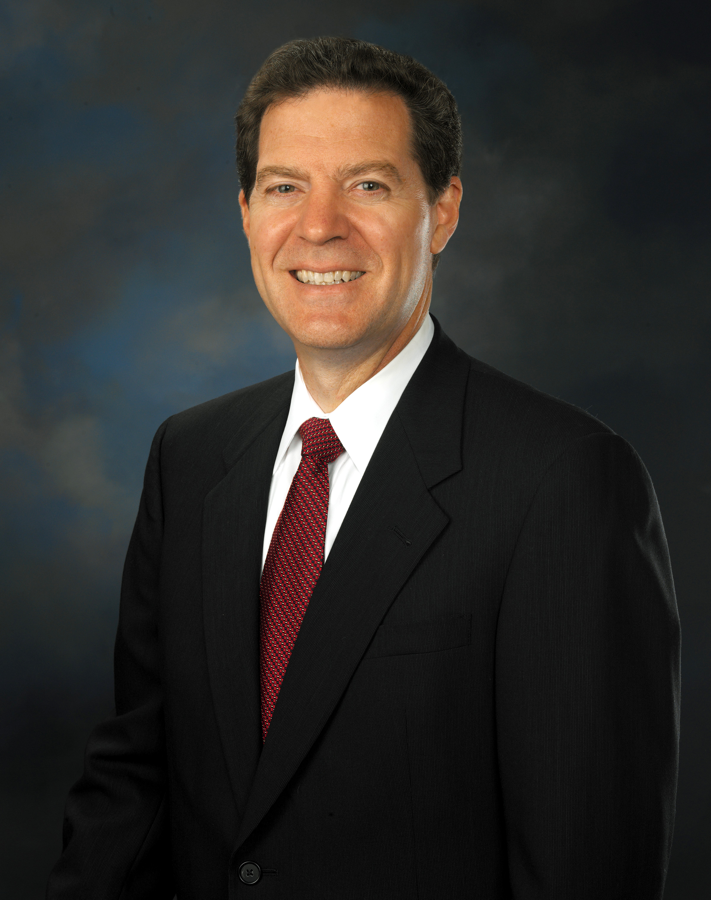 Sam Brownback, U.S. Senator from Kansas.